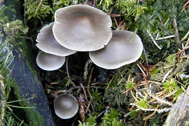 Mycena spec. from Commanster, Belgian High Ardennes. The determination of the species shown in this picture has been verified.